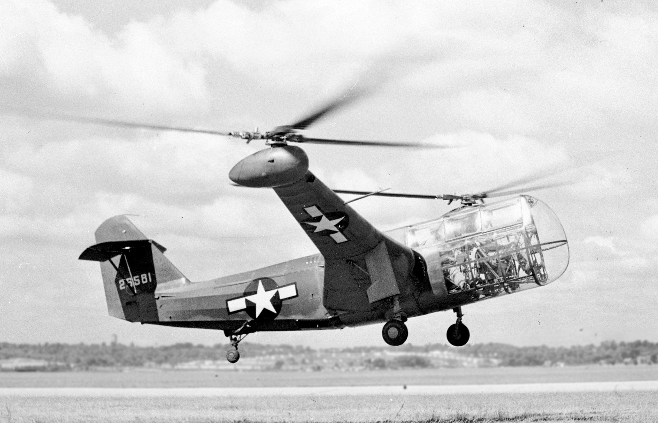 Platt-LePage XR-1A prototype observation helicopter in flight.